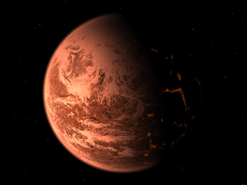 Artist depiction of an exoplanet, inspired by the discovery of Gliese 876 d in June 2005. This image is not suited as a depiction of this specific exoplanet (see the German talk page for Gliese 876 d).